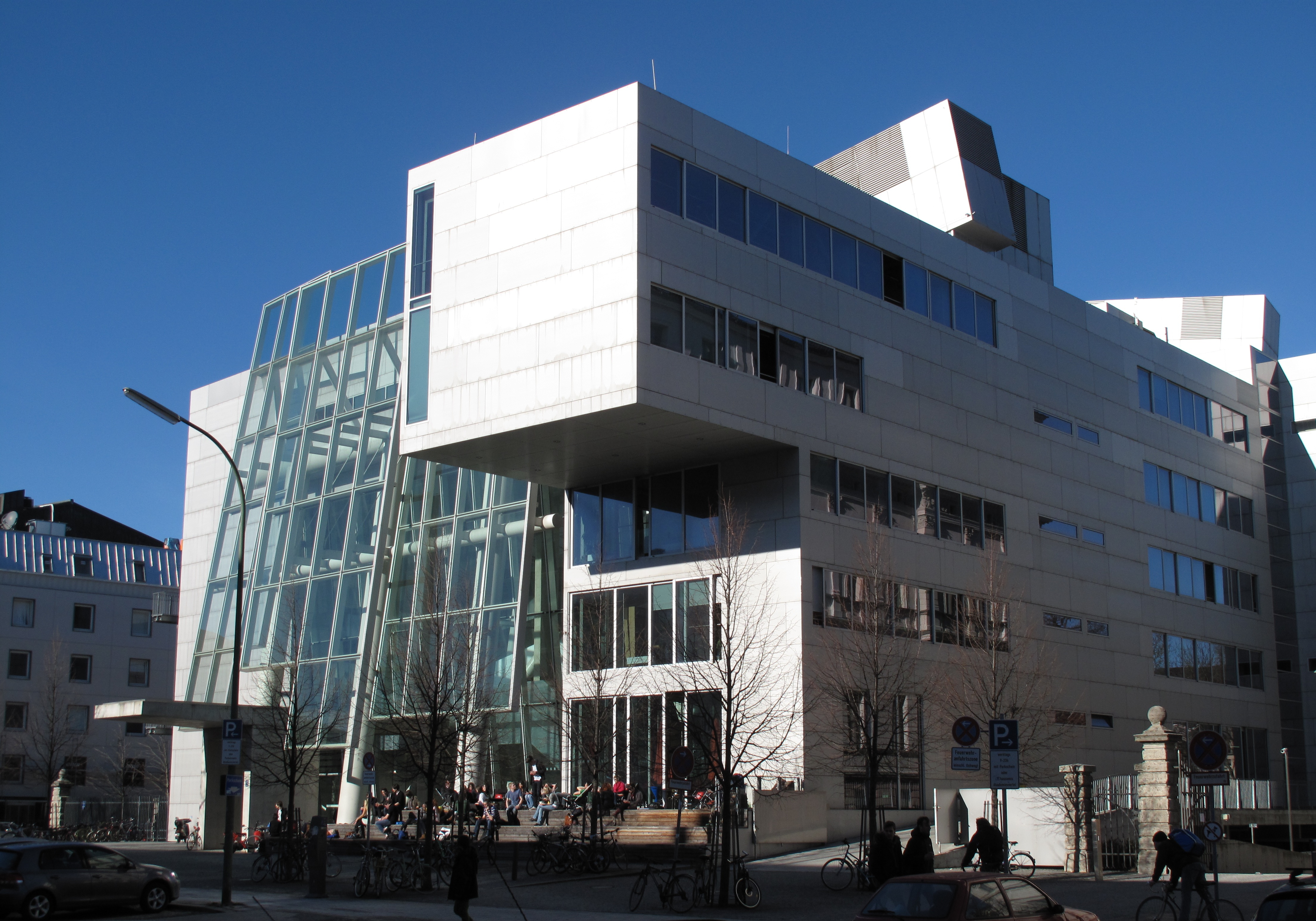 The Academy of Fine Arts, Munich, new wing designed by Coop Himmelb(l)au (2005), in Maxvorstadt, Munich.